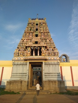 Rajagopura, Ayavandeesvarar Temple, Seeyattamangai, Nagapattinam District, Tamil Nadu, India